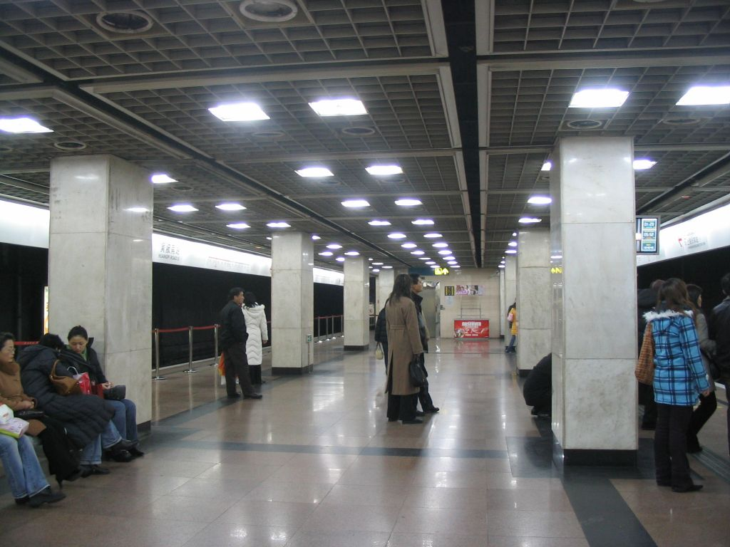 黃陂南路站-1號線月台 Line 1 Platform of South Huangpi Road Station